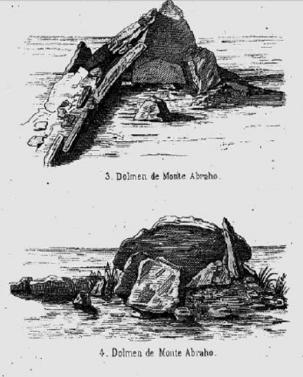 Sketch made in 1880 by Carlos Ribeiro of the Anta do Monte Abraão, a neolithic dolmen in Odivelas, Portugal